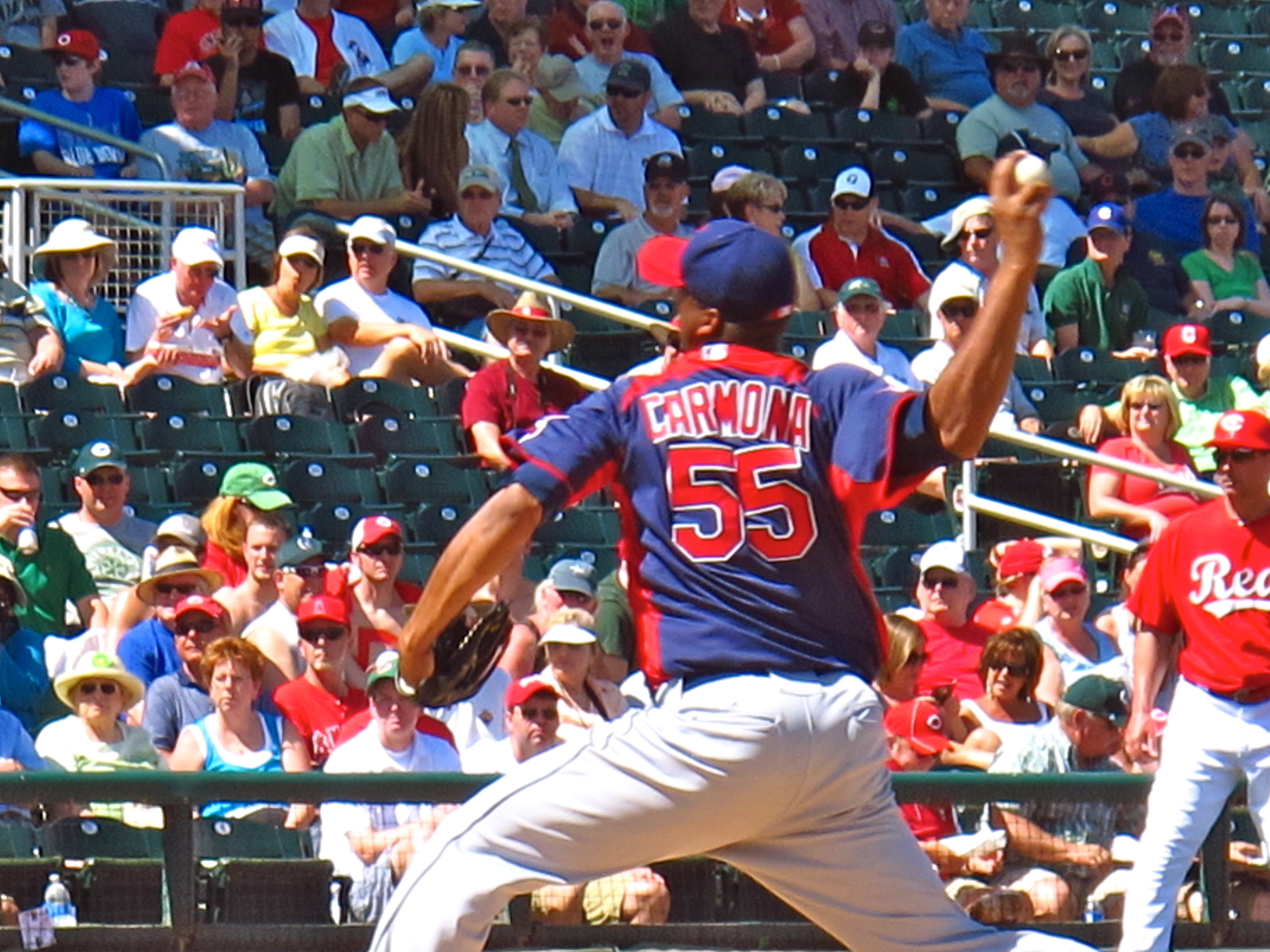 Fausto Carmona pitches in a spring training game.